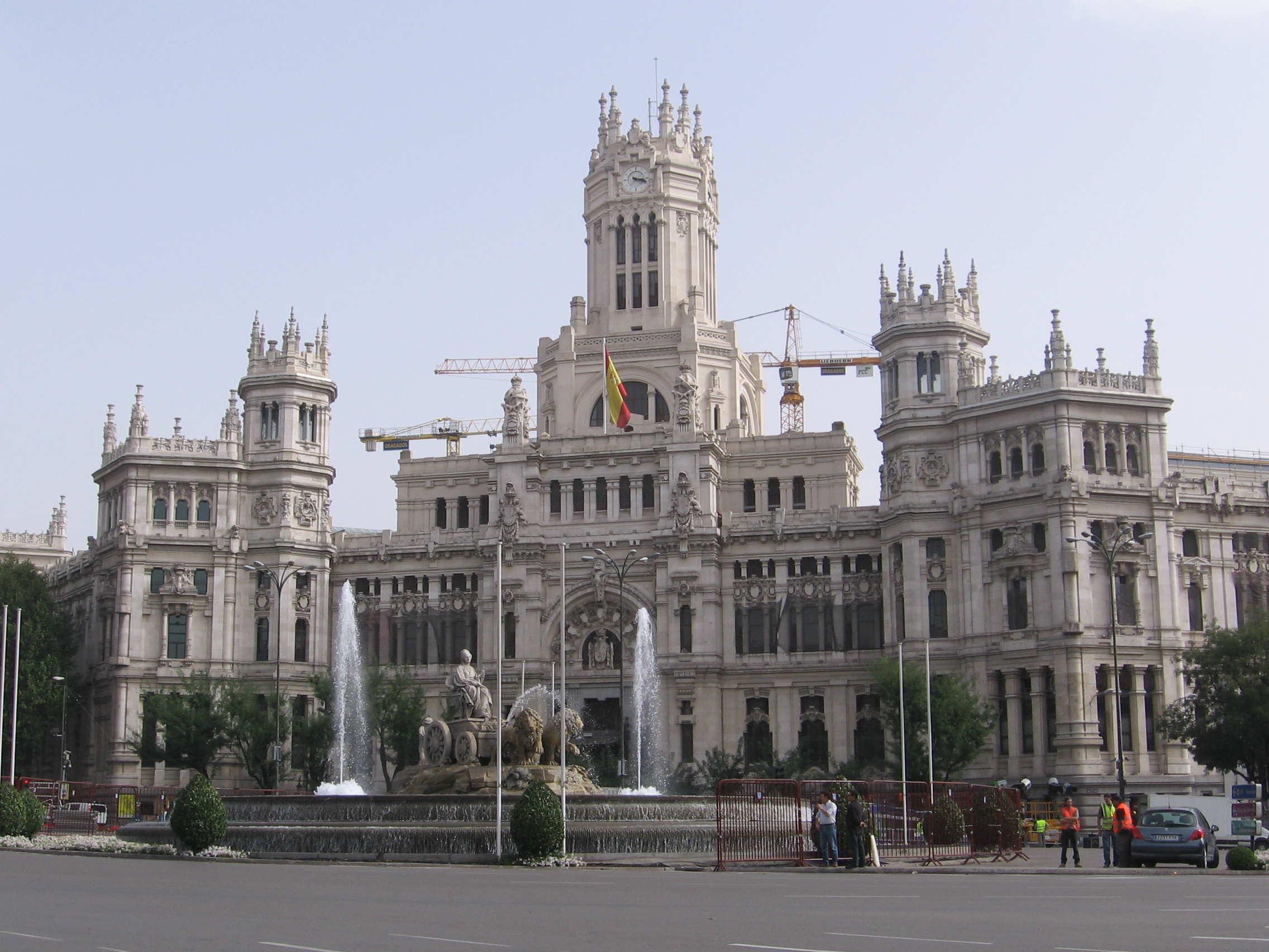 Plaza the Cibeles, Madrid: City hall.